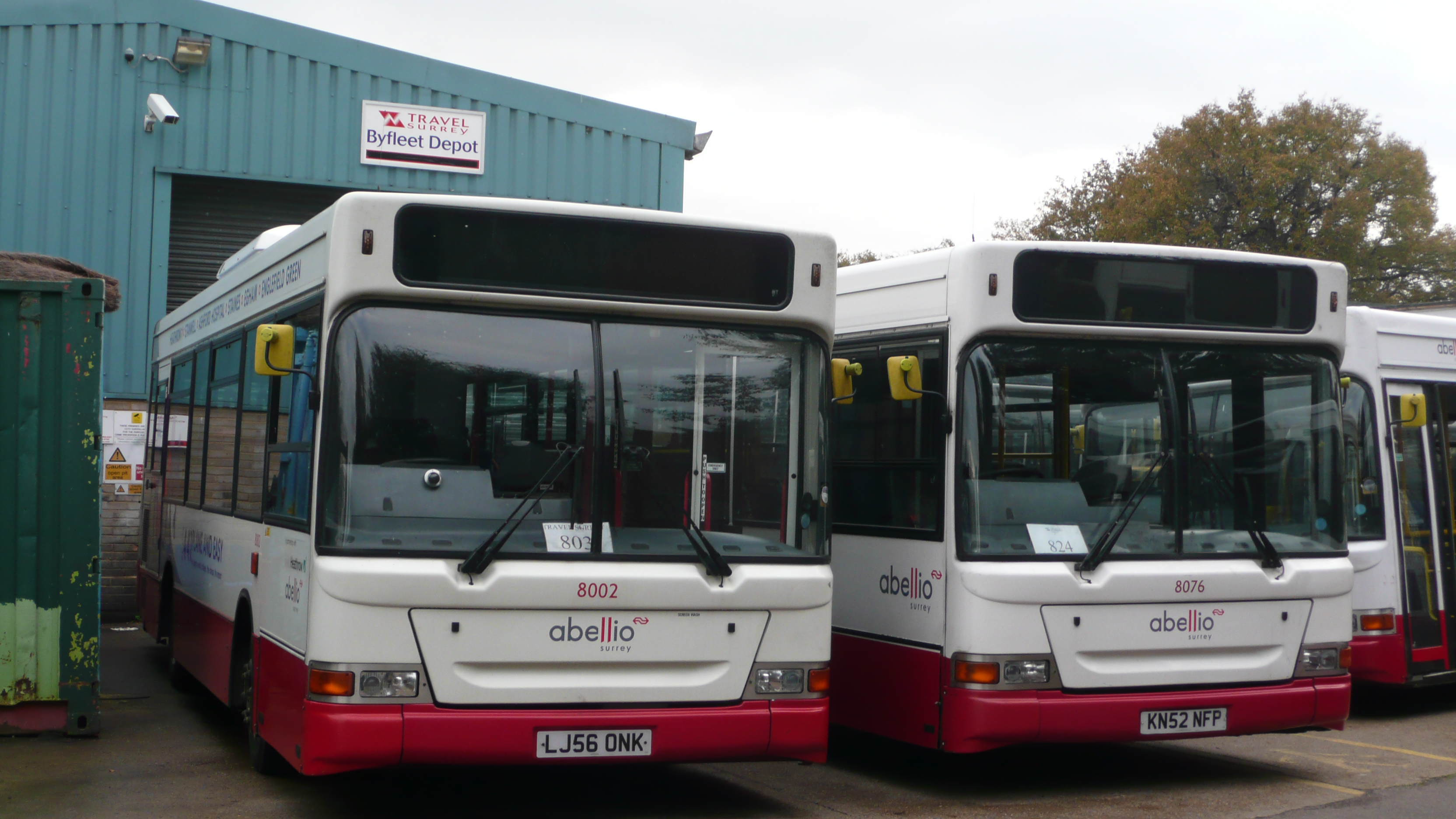 Abellio Surrey 8002 (LJ56 ONK) (left) and 8076 (KN52 NFP, no longer in fleet) (right), both Dennis Dart SLF/Plaxton Pointer MPDs, parked in the small section of the company's Byfleet depot in Wintersells Road industrial estate. There is another bigger section, which is situated further along the industrial estate. Abellio Surrey was previously known as Travel Surrey, and was sold by previous owners National Express Group to NedRailways on 21 May 2009. NedRailways renamed the company to Abellio Surrey on 30 October 2009, with buses receiving the "Abellio" name from then onwards. These buses are seen about a week after the change.